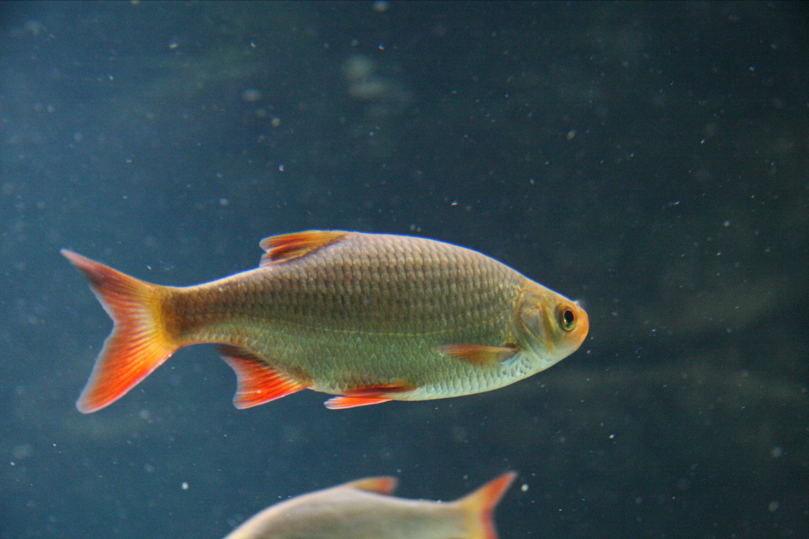 Aquarium Shot (Scardinius erythrophthalmus).